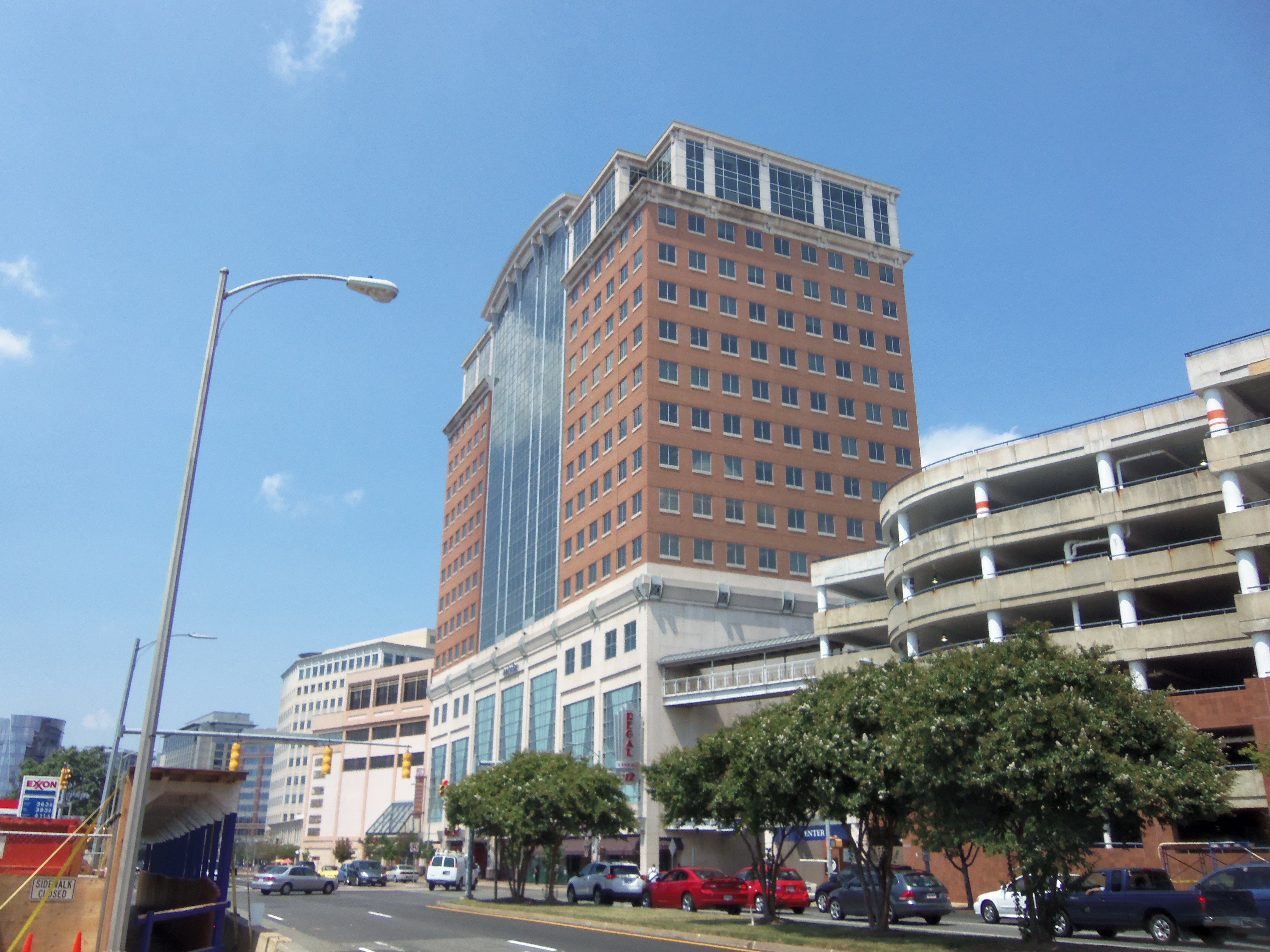 Ballston Quarter (formally Ballston Commons) in Arlington, Virginia.